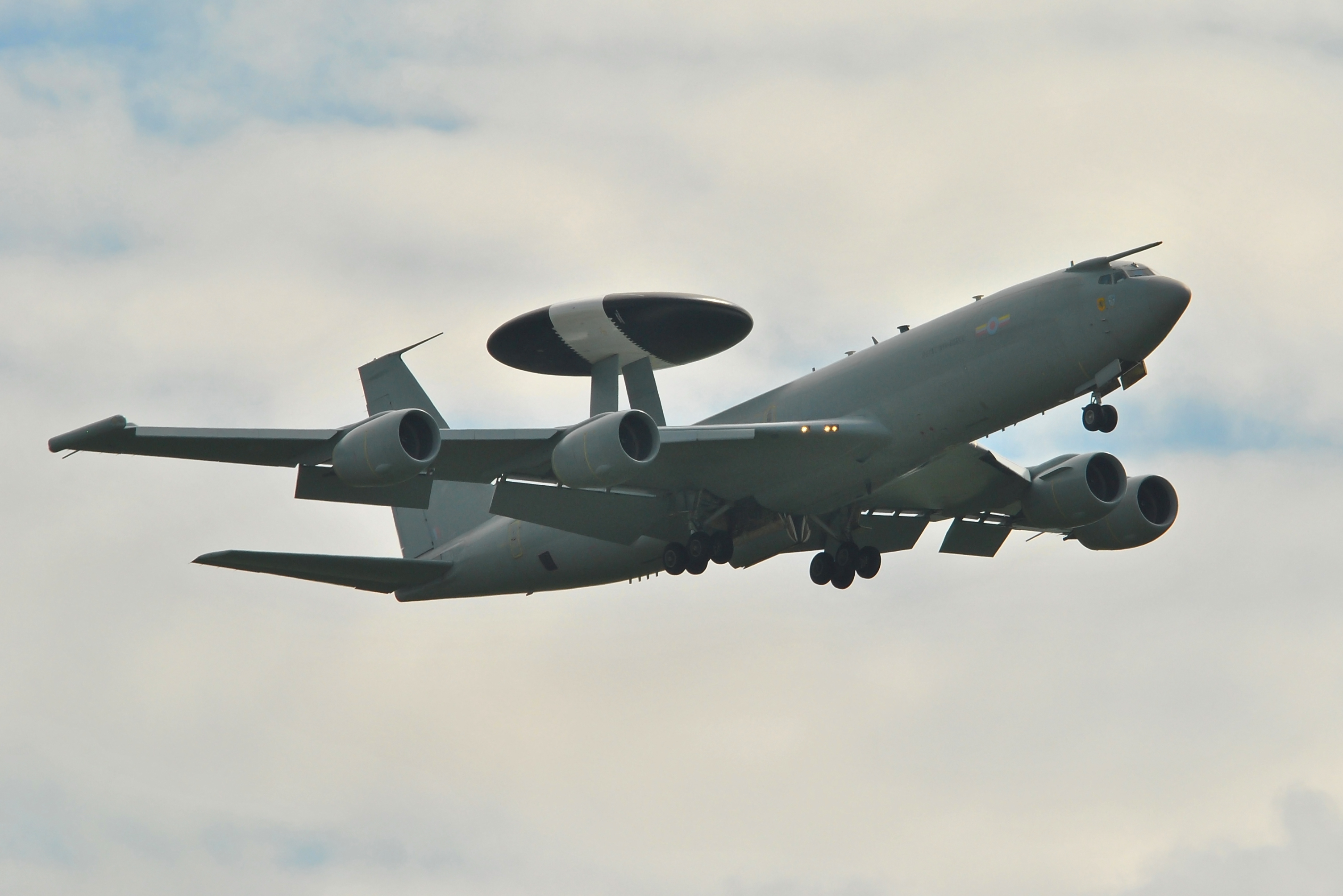 RAF E3D Sentry